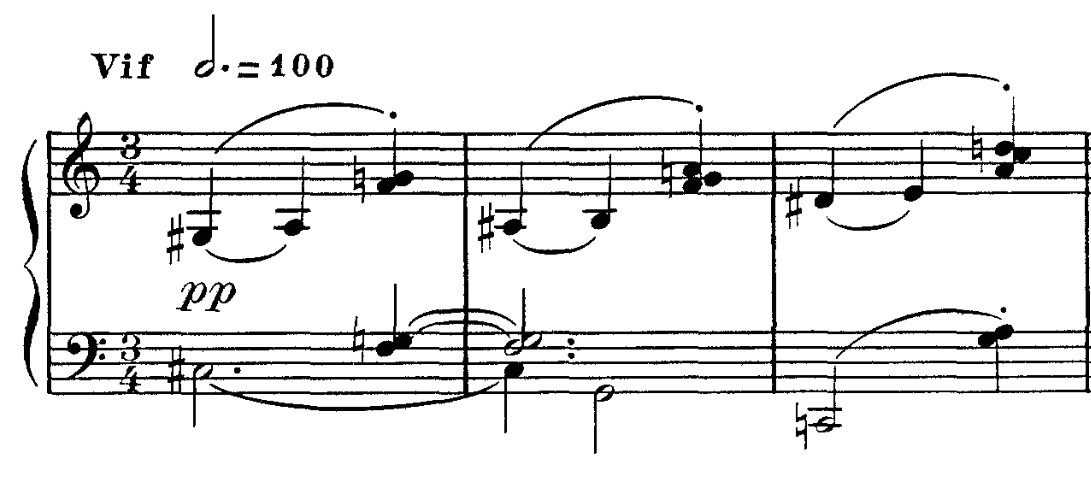 Valse No. 6